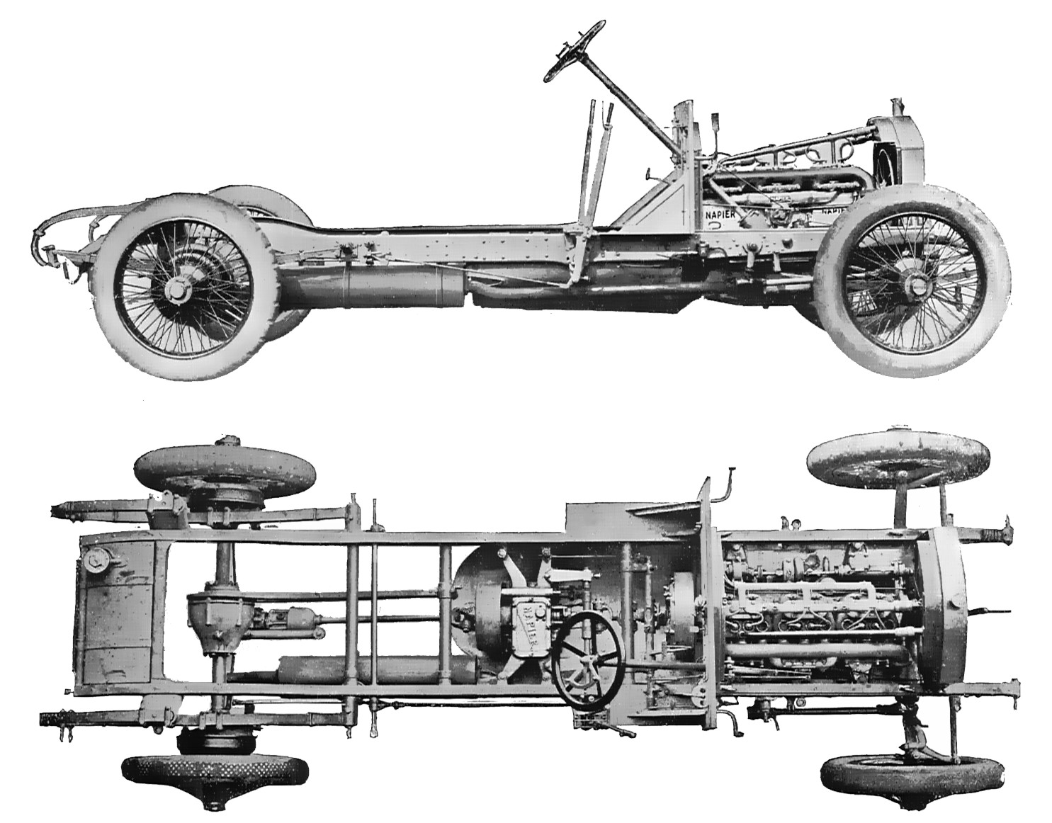 Napier rolling chassis Chassis and engine of a Napier car Scans from 'The Book of the Motor Car', Rankin Kennedy C.E., 1912 See other images from this source in Scans from 'The Book of the Motor Car'